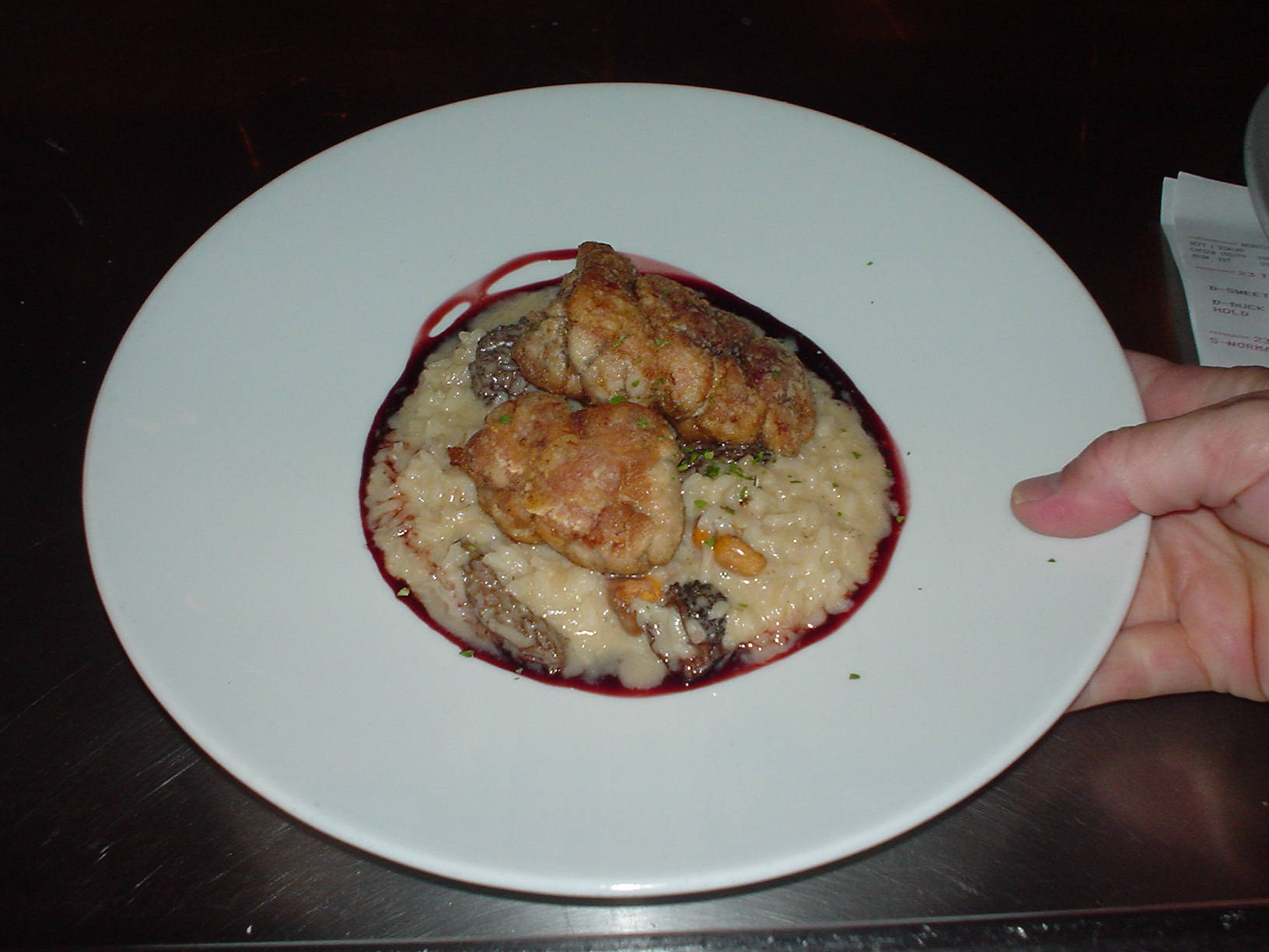 Photo by Christopher DeHerrera, taken at The Heathman Restaurant, Portland.